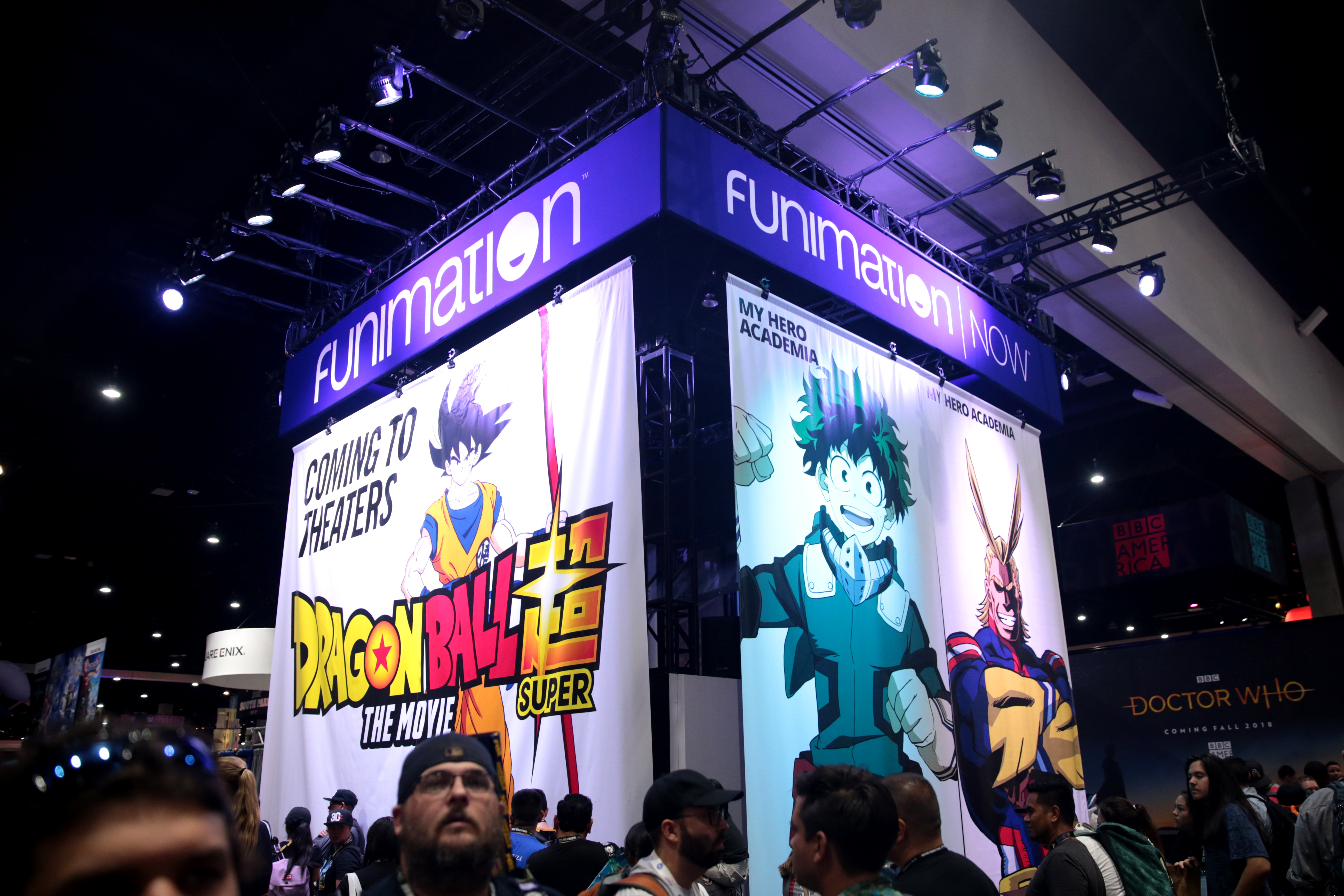 Funimation booth at the 2018 San Diego Comic-Con International at the San Diego Convention Center in San Diego, California.